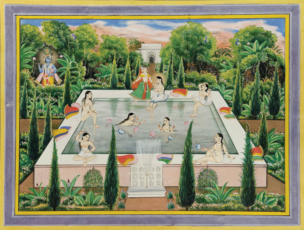 Krsna Watches the Gopis in Garden Pool Bijapur, Deccan School, c. 1650 [ Click for large version ]